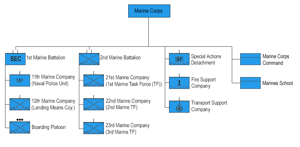 Portugese Marines Corps Structure